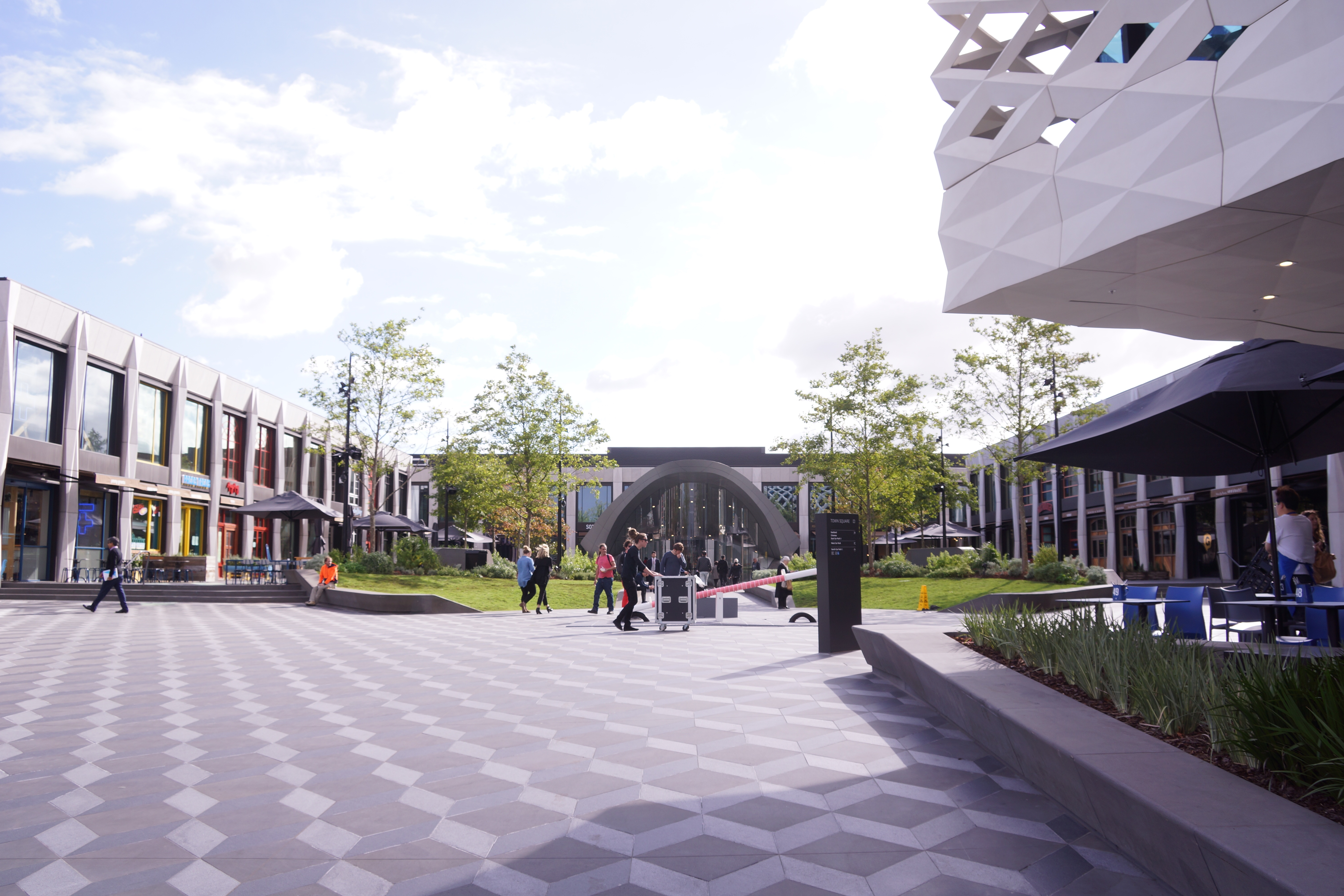 ACME Eastland Melbourne Town Square designed by ACME for Seventh Wave and QIC